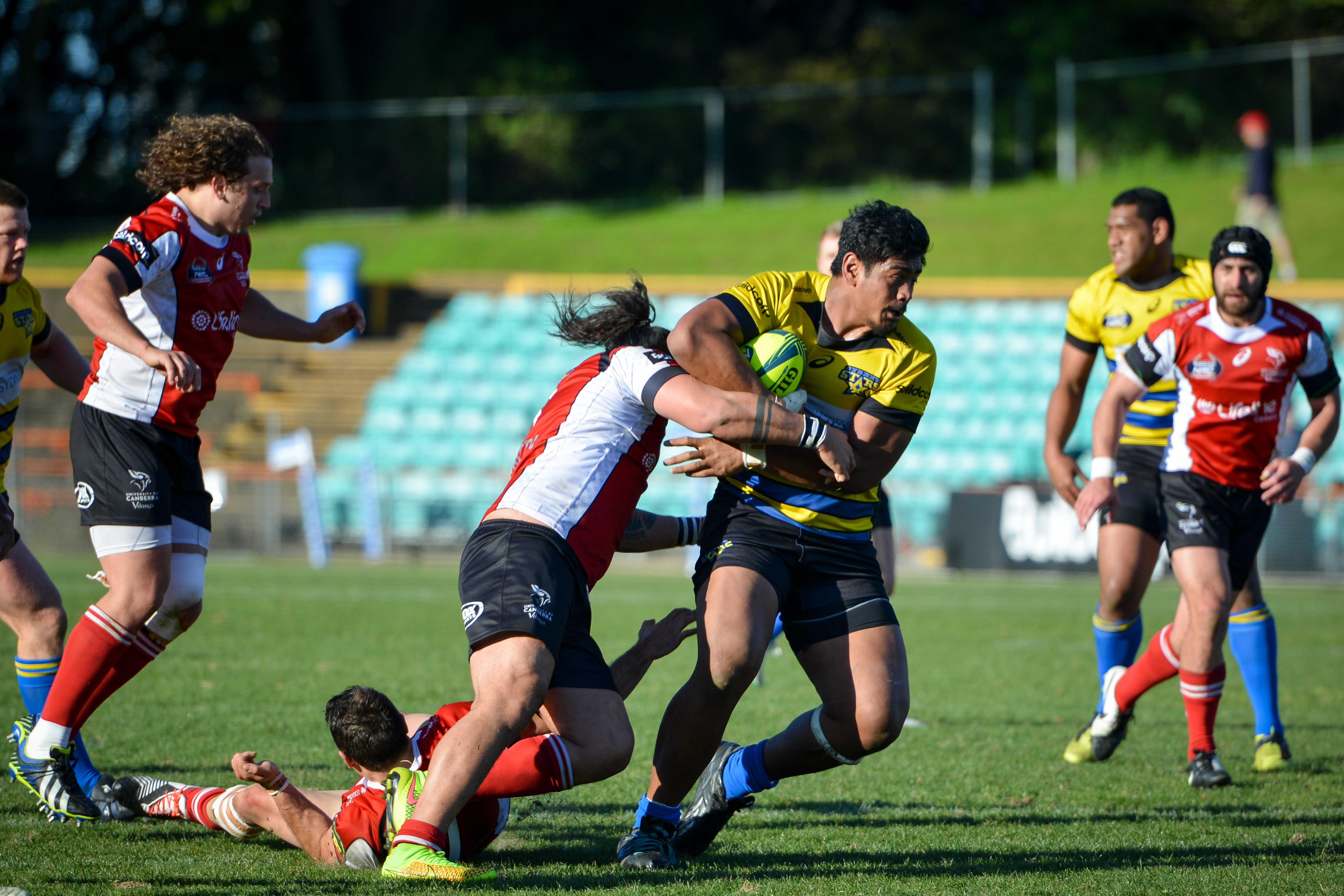 Will Skelton playing for Sydney Stars NRC Round 5